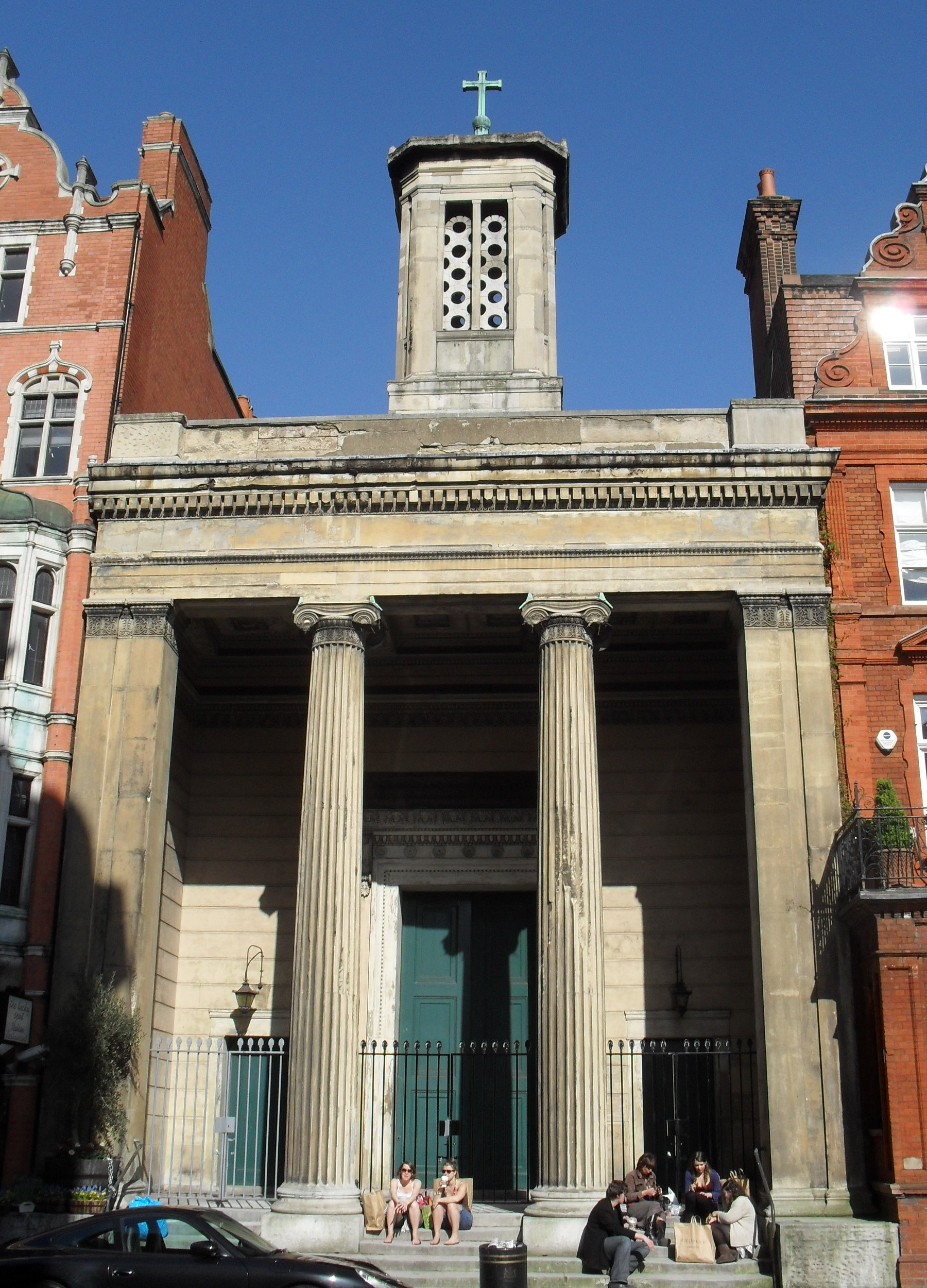 West front of the former St Mark's parish church, North Audley Street, London W1, England. No longer in religious use.